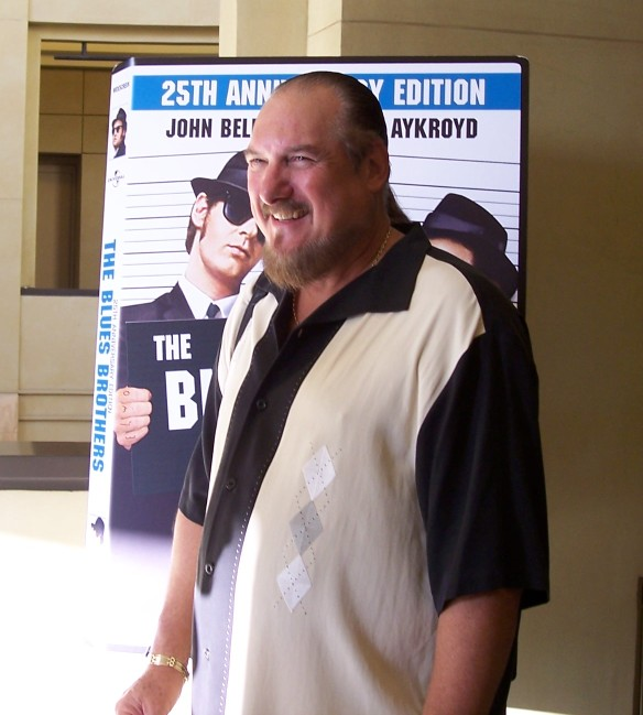 Photo taken by myself at the 25th Anniversary DVD launch of the Blues Brothers movie.